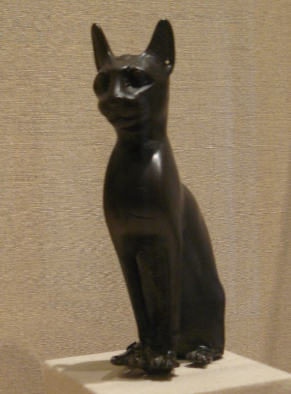 Cat, ca. 664-342 B.C.E. Bronze, hollow-cast. Brooklyn Museum, Gift of Alice Heeramaneck, 78.243.